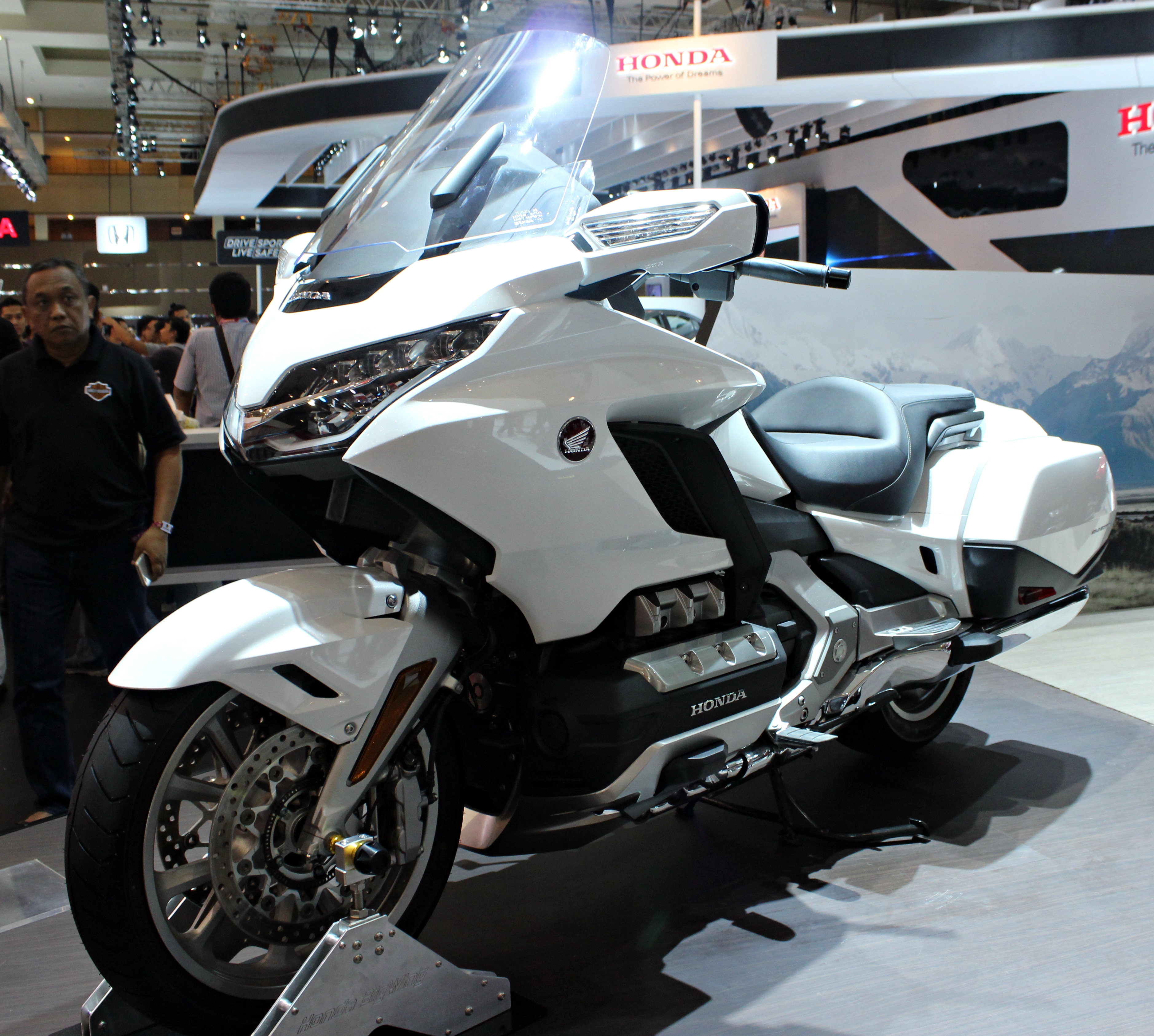 A Honda Gold Wing GL1800 photographed in Indonesia International Motor Show 2018, Jakarta, Indonesia on April 26, 2018.